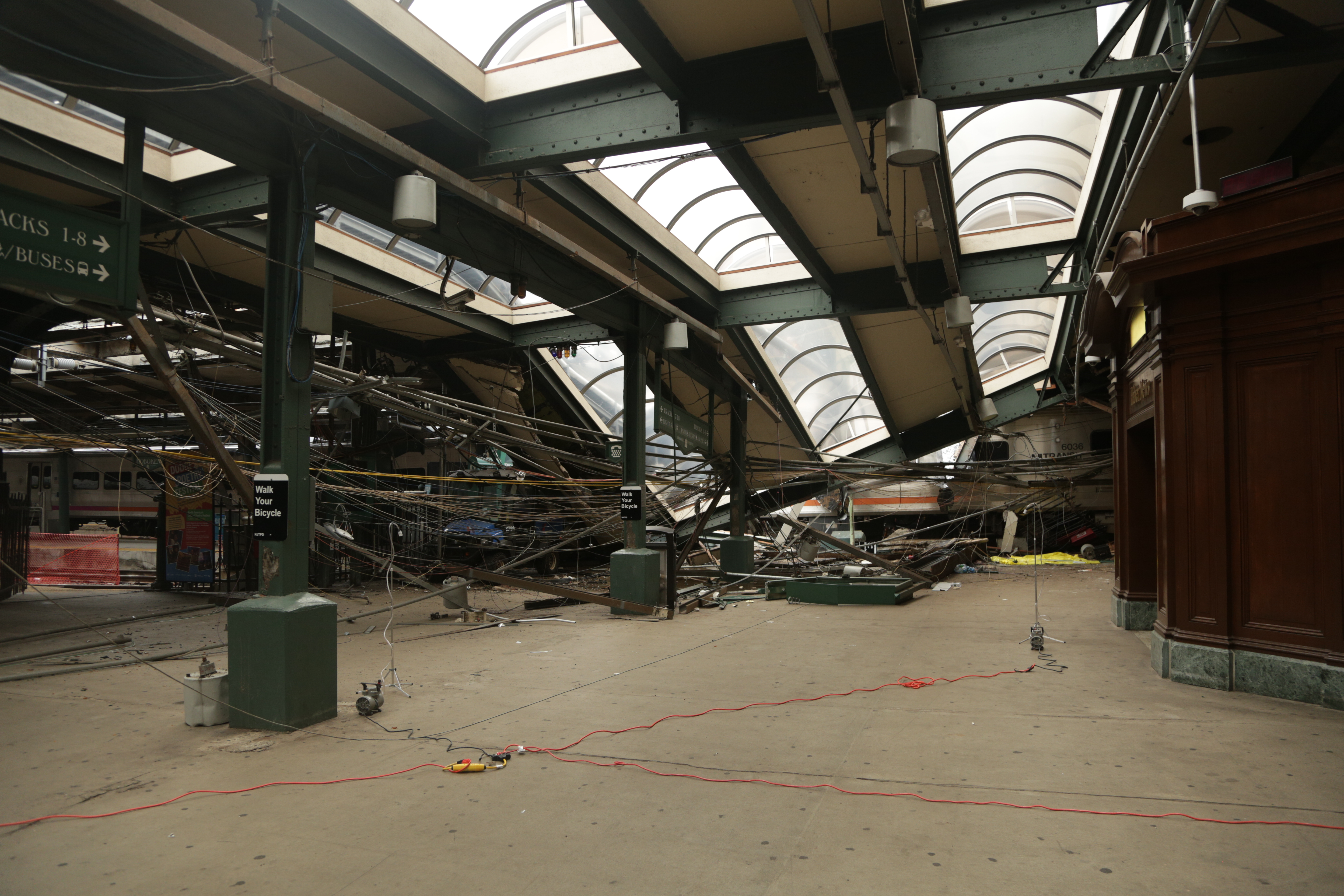 Cab car #6036 in the aftermath of the 2016 Hoboken crash